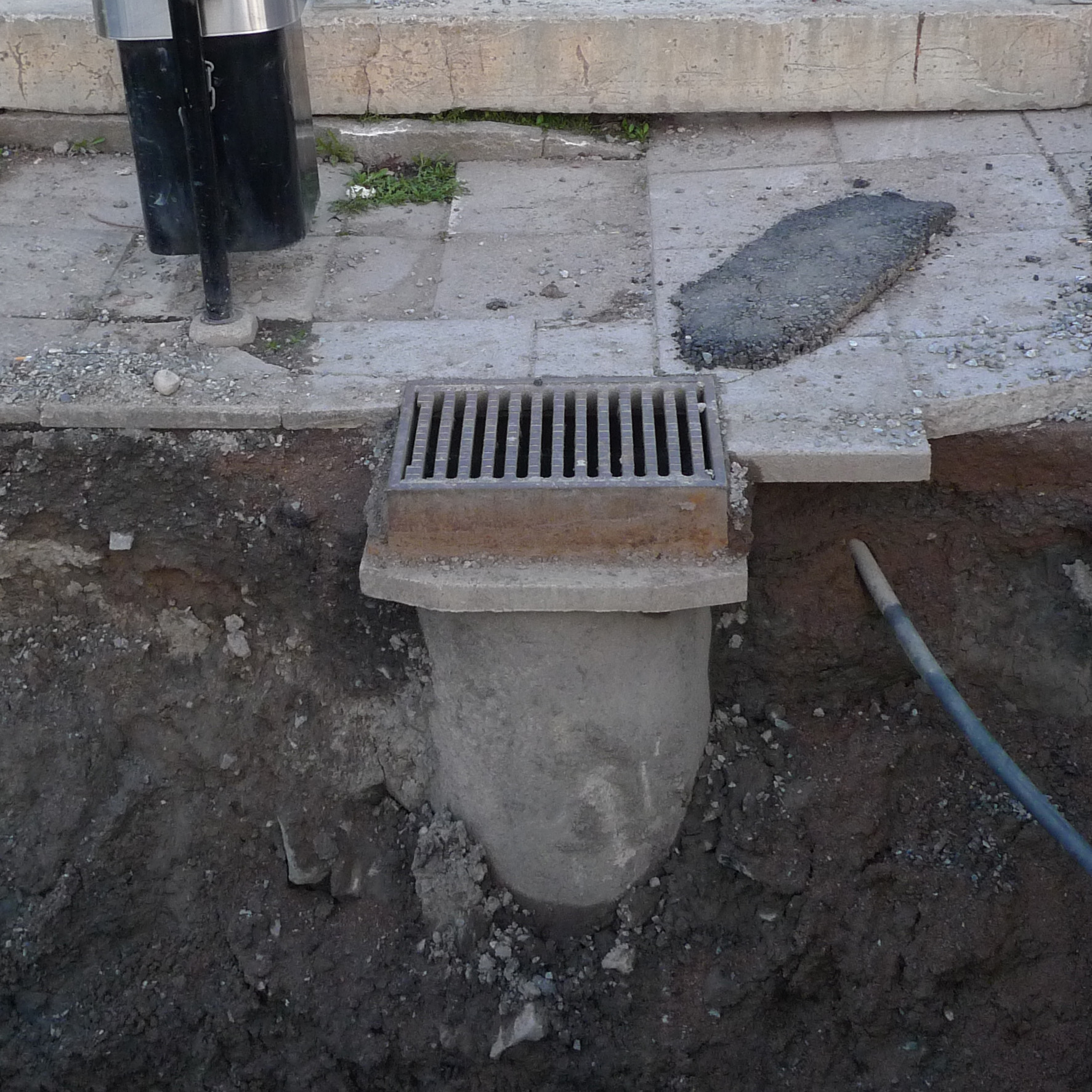 Storm drain pipe in Sweden. Visible due to construction work. (cropped version of )